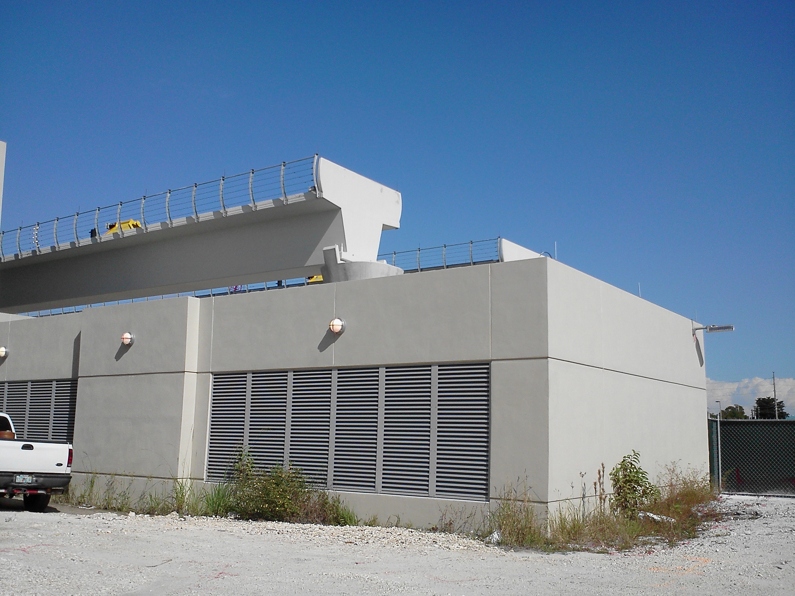 End of the Miami Metrorail line at Miami Central Station.